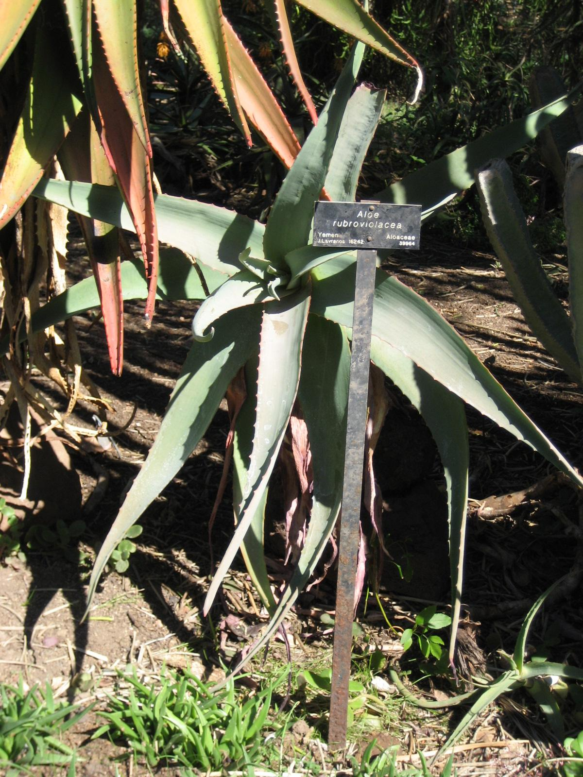 Photographed at Huntington Gardens (Los Angeles) in March